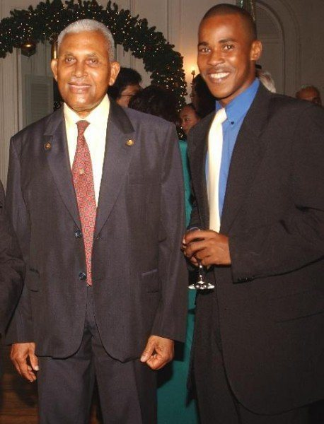 Sampson Nanton and former President of the Republic of Trinidad and Tobago, Arthur N.R. Robinson